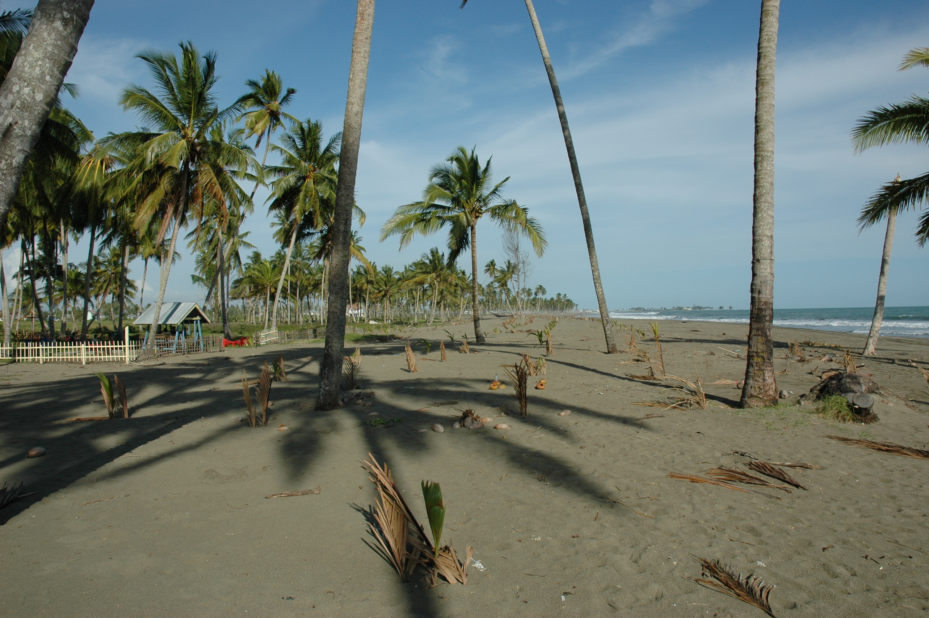 Batu Putih, Meaulaboh, Aceh.